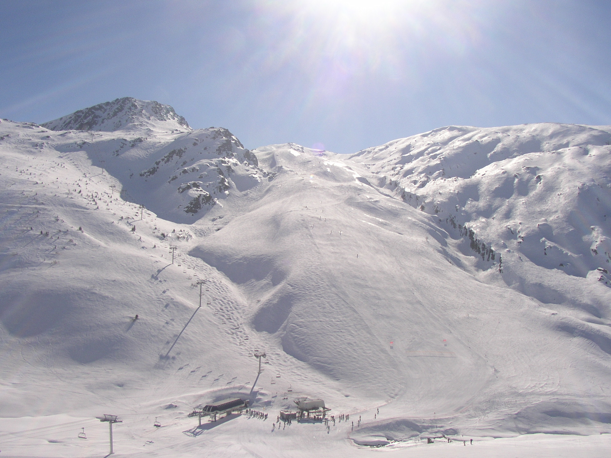 Sight of Saint-Sorlin d'Arves ski resort, in Savoie, France.